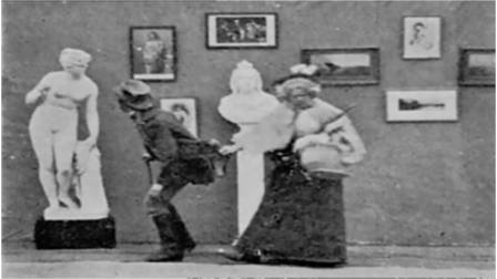 Screenshot from the film Come Along (1898)